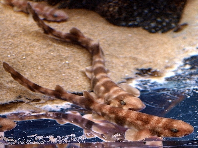 Cloudy catsharks (Scyliorhinus torazame) at the Shinagawa Aqua Stadium